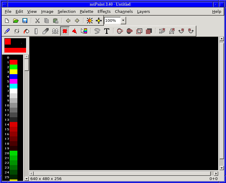 mtPaint 3.40 running on OpenBSD 6.2.